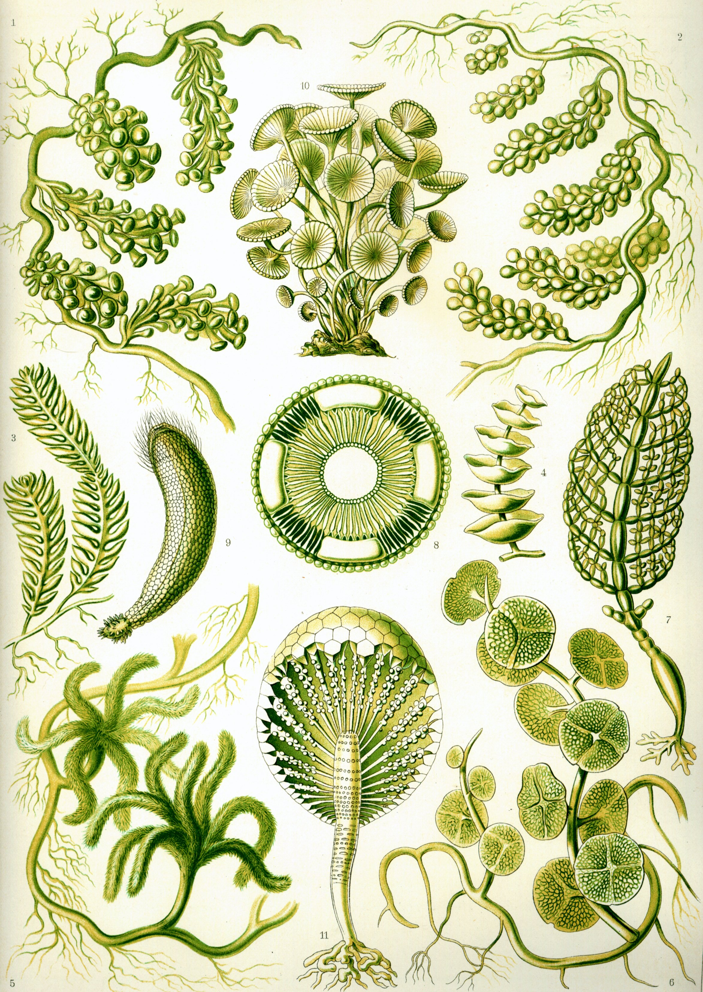 (top left): Caulerpa racemosa (Agardh) = Caulerpa racemosa (Forsskål) J.Agardh, habitus (top right): Caulerpa uvifera (Agardh) = Caulerpa racemosa f. uvifera (C.Agardh) J.Agardh, habitus (left): Caulerpa pinnata (Weber van Bosse) = Caulerpa mexicana Sonder ex Kützing / Caulerpa pinnata C.Agardh, habitus (right center): Caulerpa peltata (Lamouroux) = Caulerpa peltata J.V.Lamouroux, habitus (bottom left): Caulerpa paspaloïdes (Harvey) = Caulerpa paspaloides (Bory de Saint-Vincent) Greville, habitus (bottom right): Caulerpa macrodisca (Decaisne) = Caulerpa peltata var. macrodisca (Decaisne) Weber-van Bosse, habitus (right): Struvea plumosa (Sonder) = Struvea plumosa Sonder, habitus (center): Neomeris kelleri (Cramer) = Neomeris annulata Dickie, cross-section (left center): Neomeris kelleri (Cramer) = Neomeris annulata Dickie, habitus (top center): Acetabularia mediterranea (Lamouroux) = Acetabularia acetabulum (Linnaeus) P.C.Silva, habitus (bottom center): Bornetella capitata (Agardh) = Bornetella capitata (Harvey ex E.P.Wright) J.Agardh, habitus with lengthwise section through lower "head"